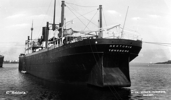 Whaling factory Hektoria, ex. Medic (1899)